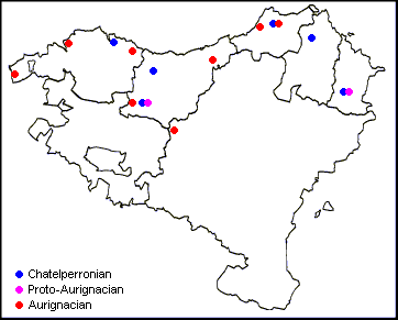 Author: Sugaar Source: X. Peñalver, Euskal Herria en la Prehistoria, 1996. ISBN 84-89077-58-4 Legend: Main Chatelperronian (blue), Proto-Aurignacian (magenta) and Aurignacian (red) sites in the Basque Country